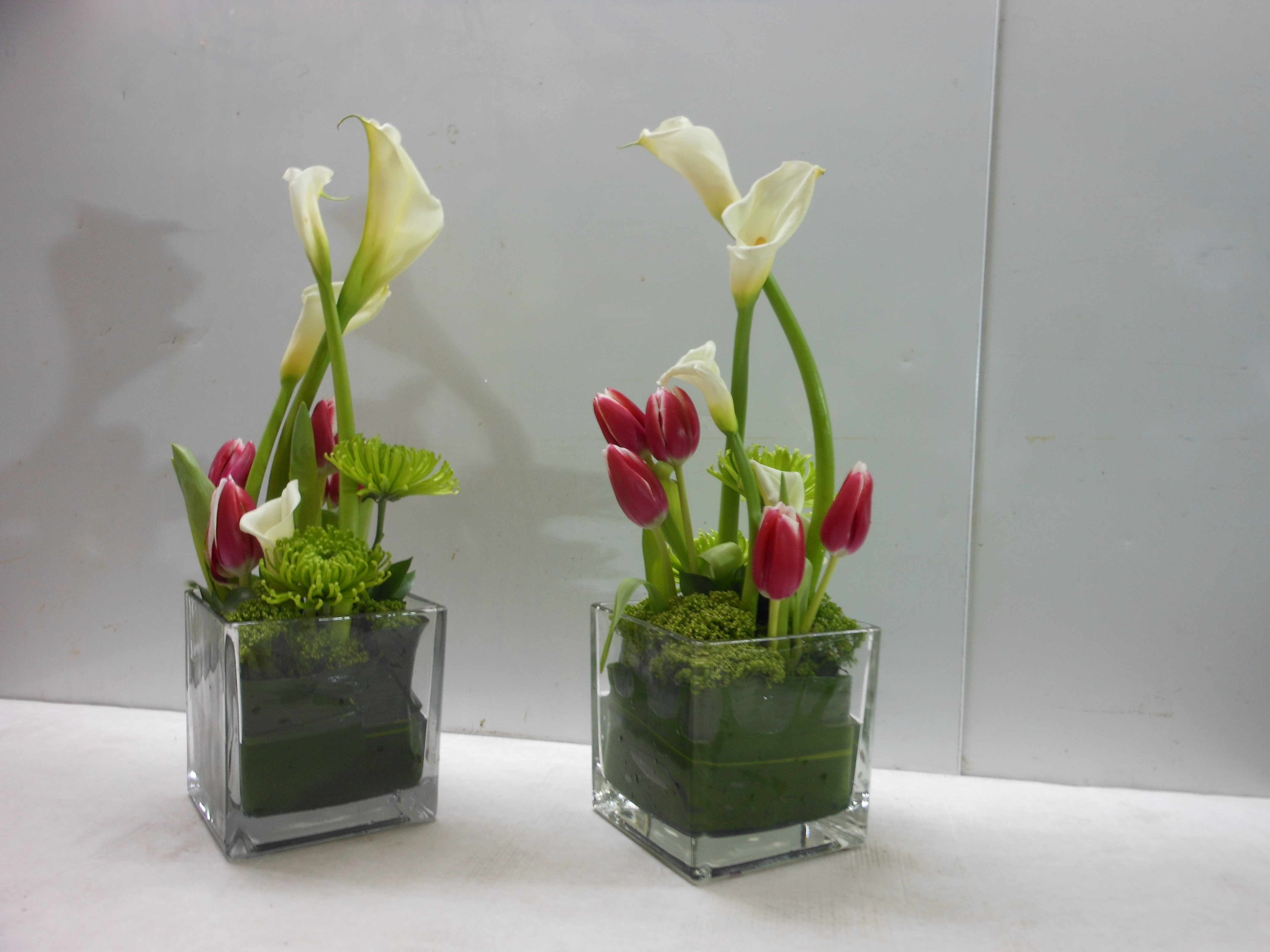 Zantedeschia and tulips